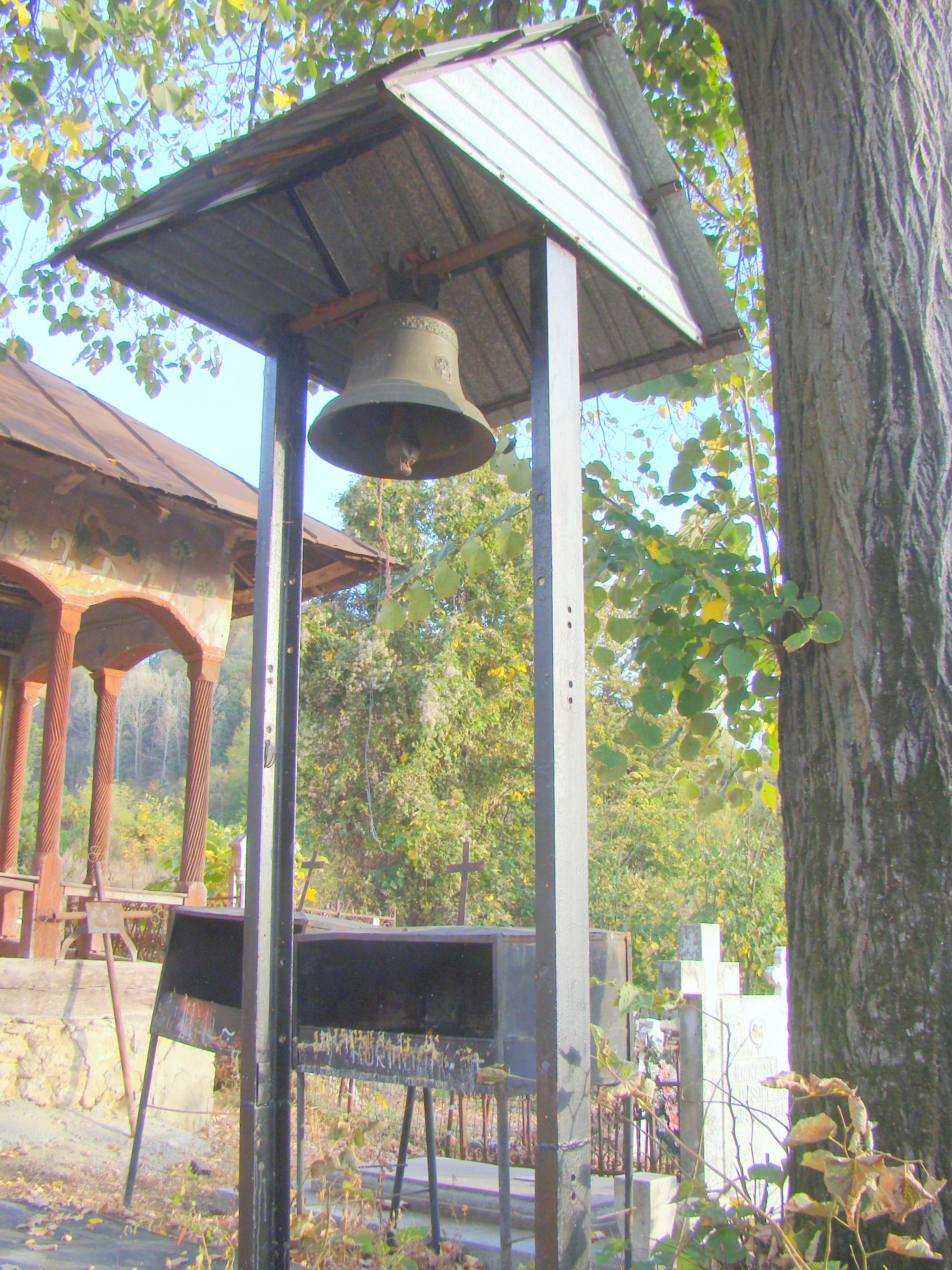 Wooden church in Plopșoru, Gorj county, Romania